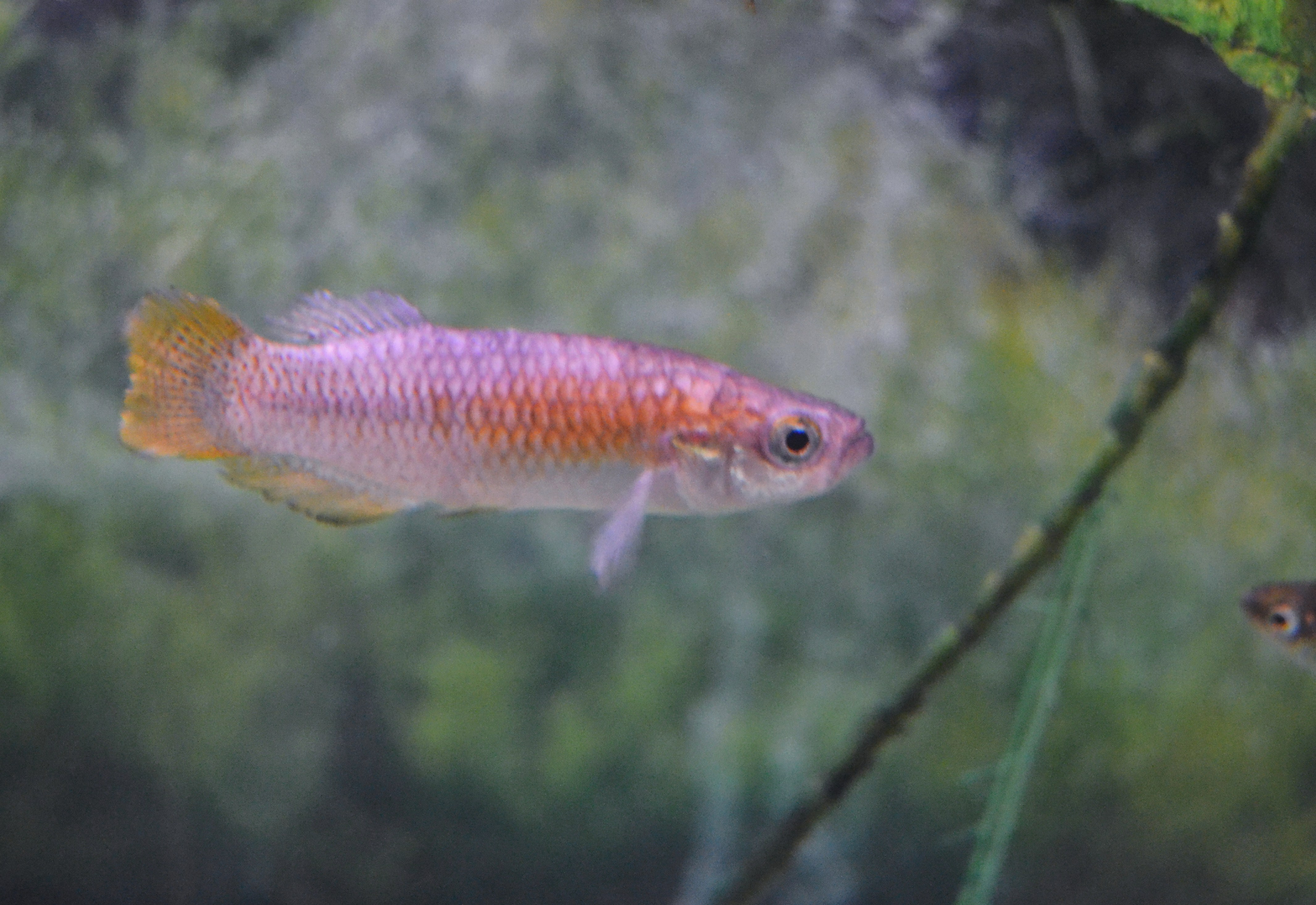 Valencia toothcarp (Valencia hispanica), a species of freshwater fish in the Valenciidae family endemic to the south of Catalonia and the Valencian Community, Spain.